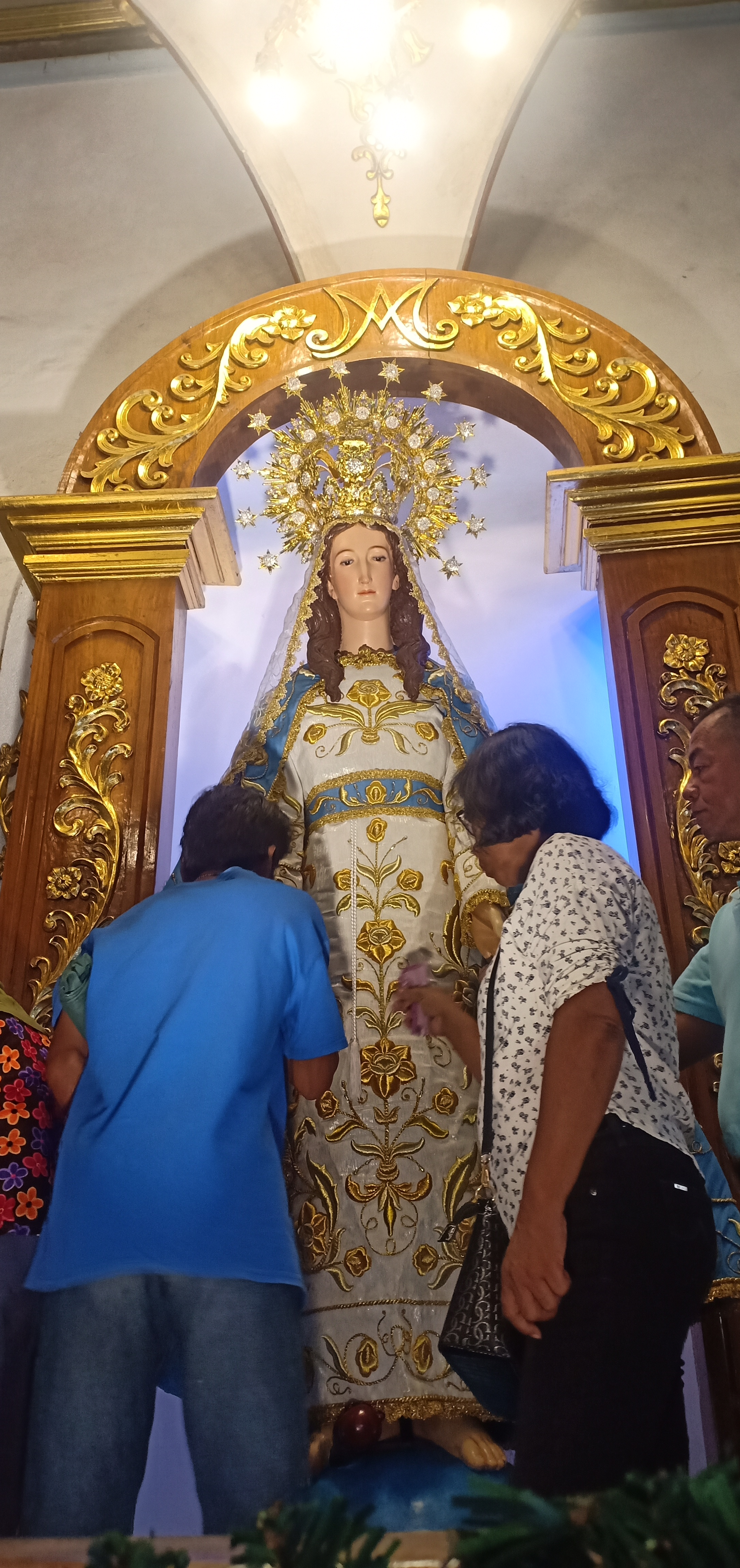 As traditionally venerated by devotees, Our Lady of Namacpacan is a statue of the Virgin Mary venerated in the locality of Luna, in the Province of La Union in the Philippines.